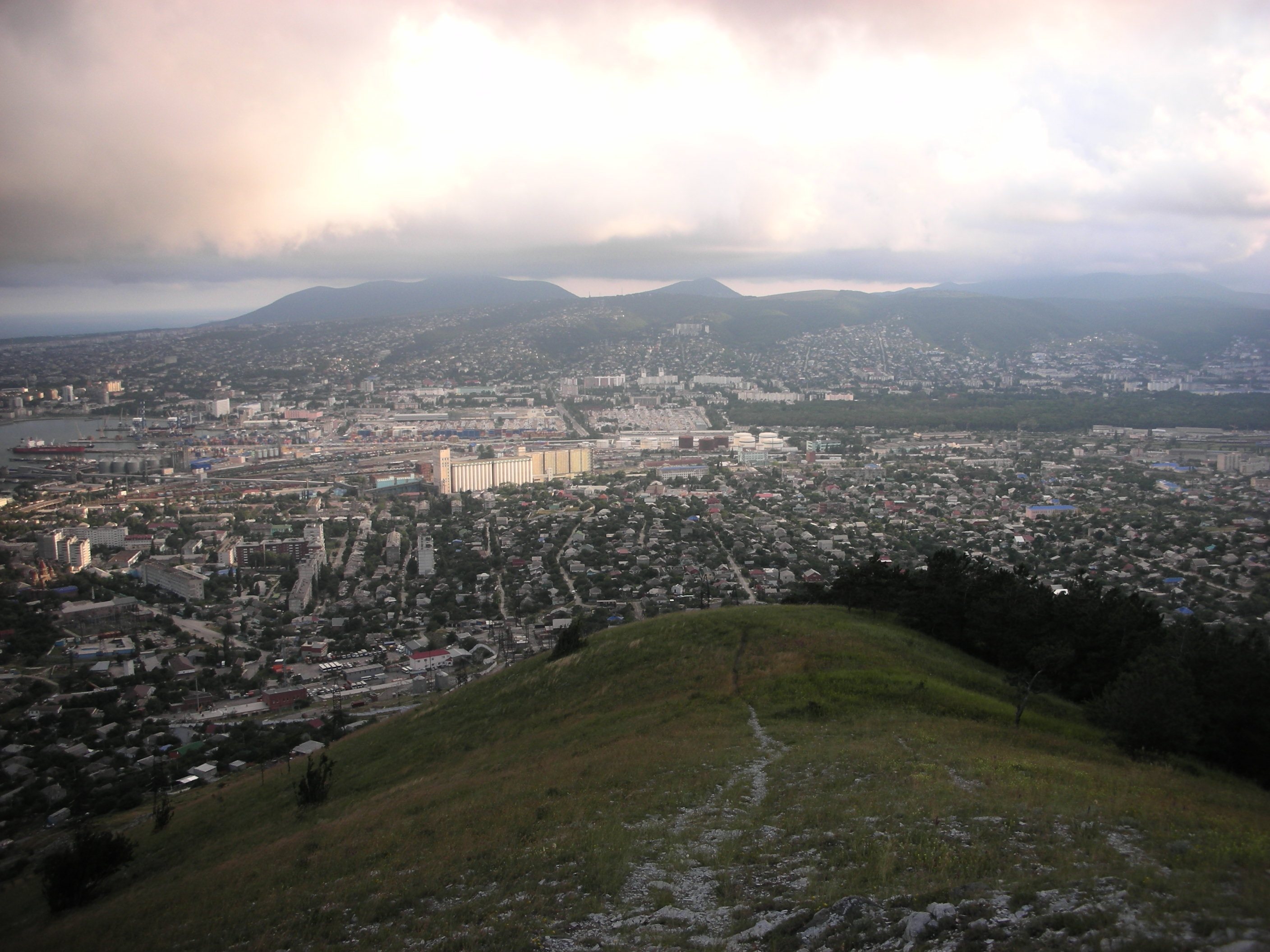 Novorossiysk perspective